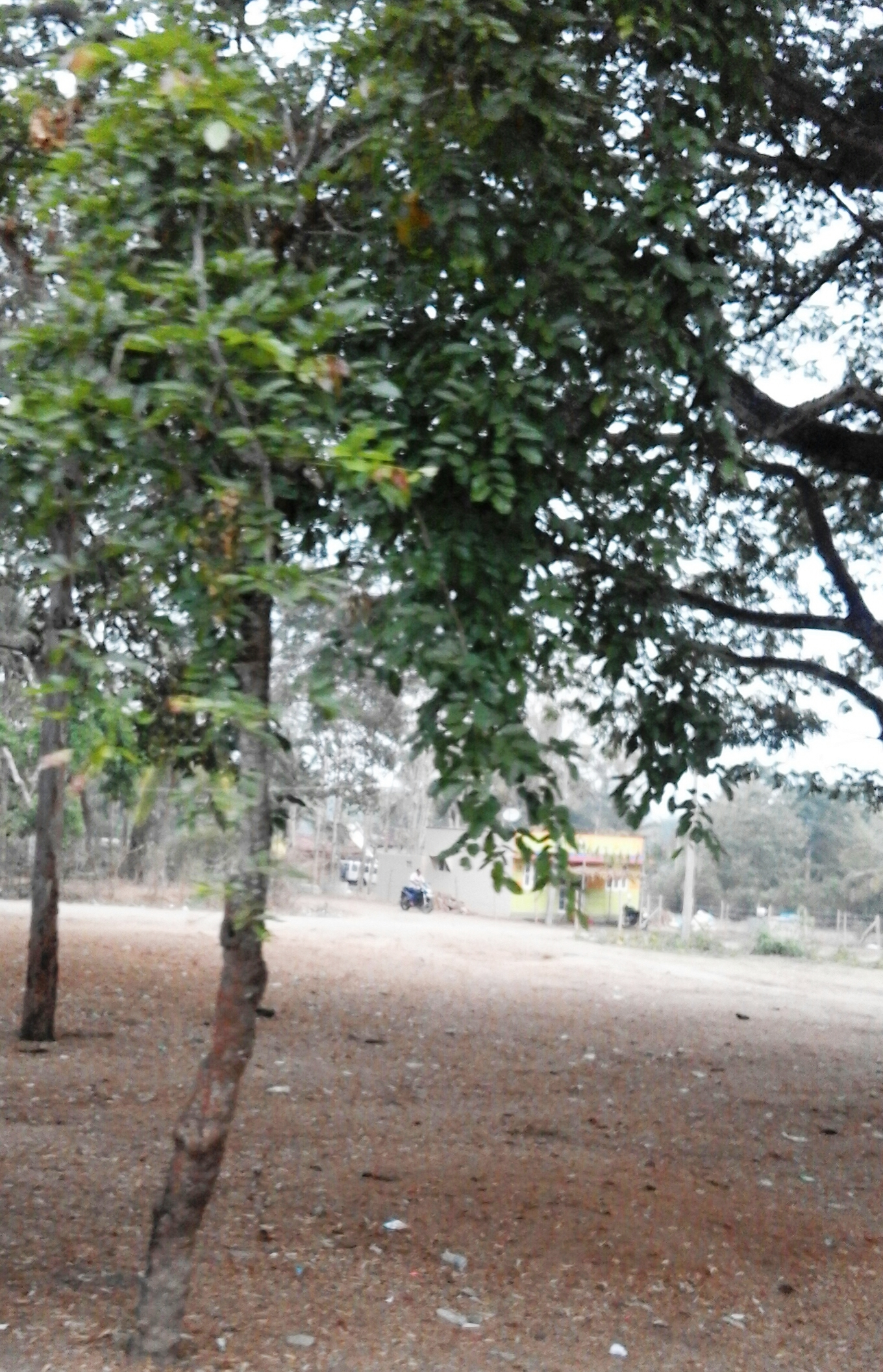 H.D.Kote taluk, Mysore district, Karnataka province, India.